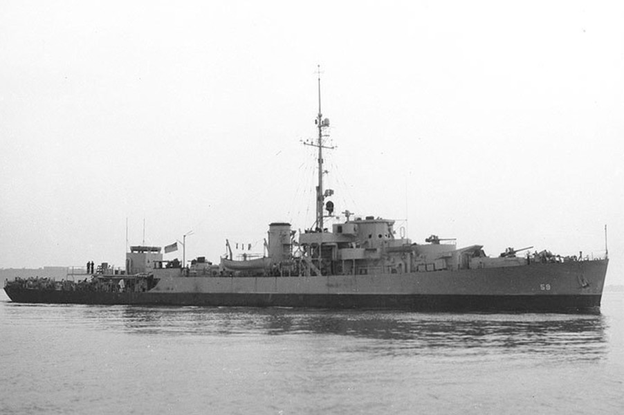 Photo #: 19-N-70771 USS Beaufort (PF-59) Off the Boston Navy Yard, Massachusetts, 6 September 1944. Photograph from the Bureau of Ships Collection in the U.S. National Archives.